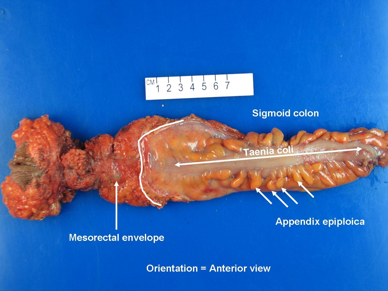 Abdominoperineal resection specimen. Gross pathology. Related images Anterior view Lateral view Anterior and lateral view (inked) Opened